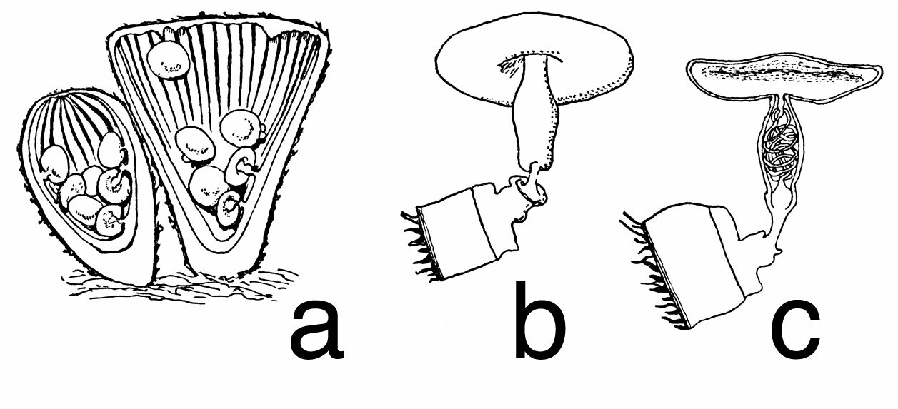 Cyathus striatus (a) young and mature sporophores in longitudinal section; (b), (c) single peridiolea entire and in section